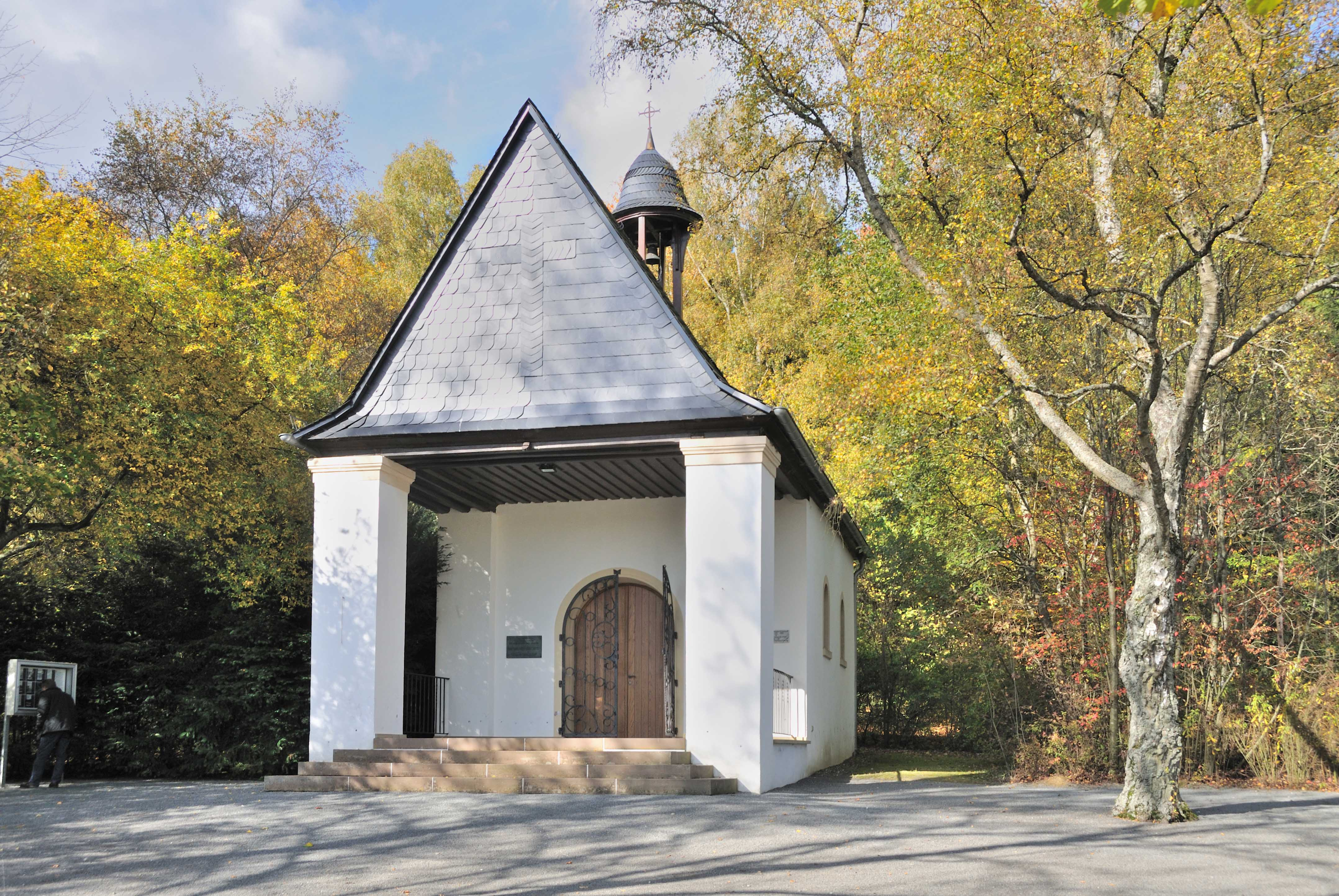 Chapel of the memorial at the site of the Second World War concentration camp at Hinzert, Hunsrück, Rhineland-Palatinate, Germany